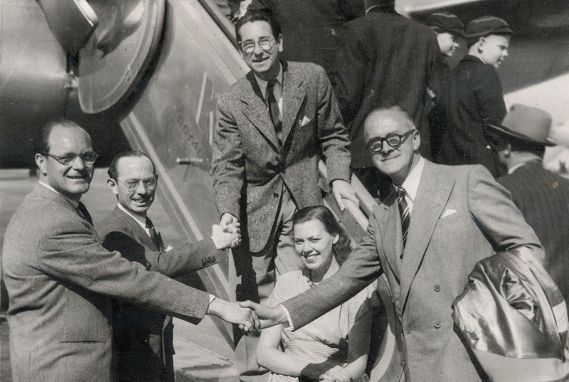 Dennis Berry (centre top) with his wife Aaltje (centre bottom), send off members of the Songwriters' Guild to a conference in Amsterdam.